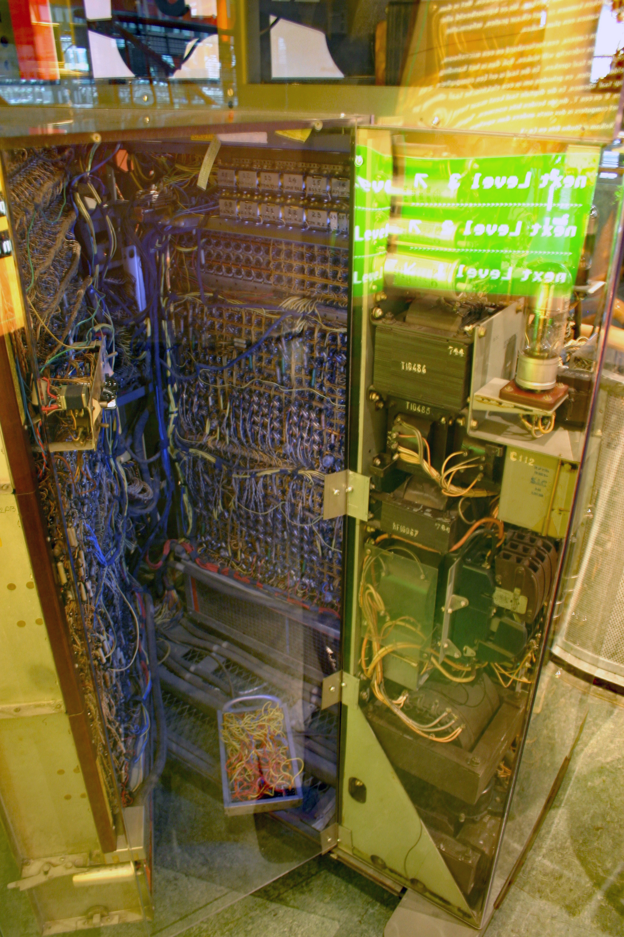 This programmable electronic calculator uses some 1400 electron tubes; its weight is more than 600 kilograms. Instead of using a keyboard and screen, input and output was by means of punched cards. The punched card machine (almost the same size as the 604 itself) is not shown here. The 604 was IBM's 2nd step into the realm of electronic calculators, and at the time had many innovative features. But it differs in so many ways from modern calculators (speed, size, ease of use, reliability, price...) that you can hardly compare them. Visit my blog at for science news and speculation.